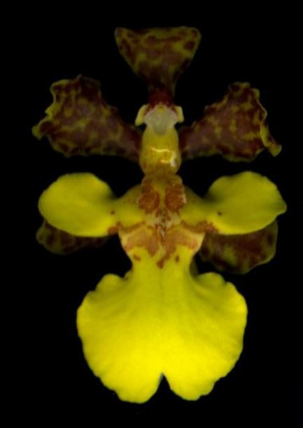 Flower of Trichocentrum ascendens (Oncidiinae: Orchidaceae).